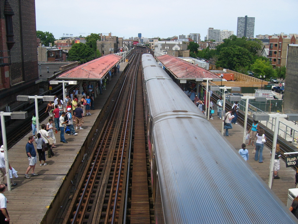 Belmont Station on the CTA red, purple, and brown lines.